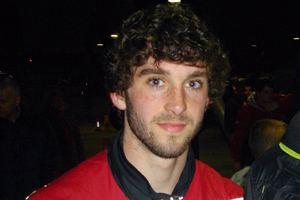 Photo taken by myself of Will Grigg following the Milton Keynes Dons Vs. Walsall game on March 25 2011 at Stadium:mk.